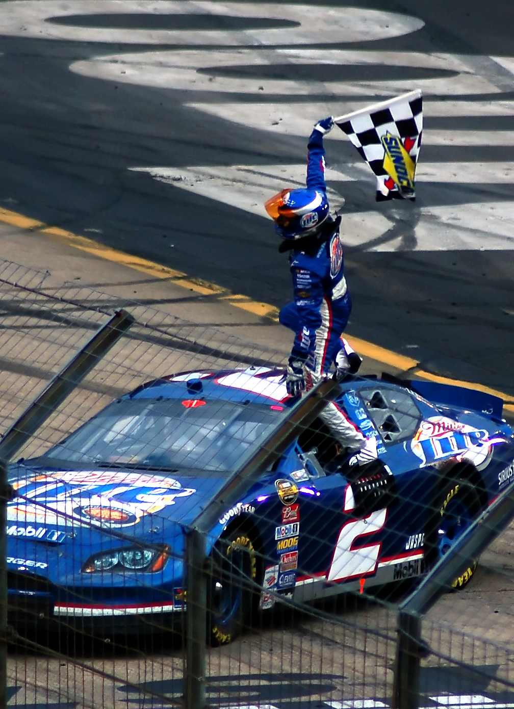 Kurt Busch celebrates victory at the 2006 Spring Bristol NASCAR race